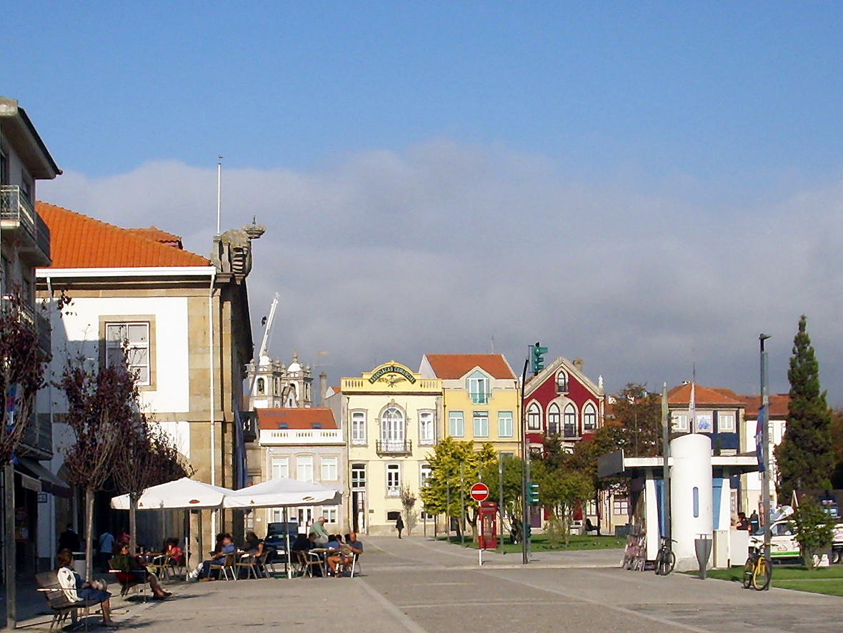 Praça do Almada - main square in Póvoa de Varzim, Portugal